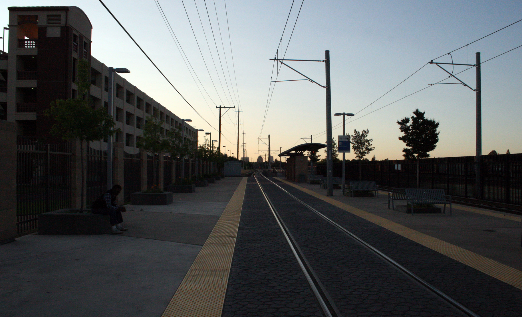 scc light rail station